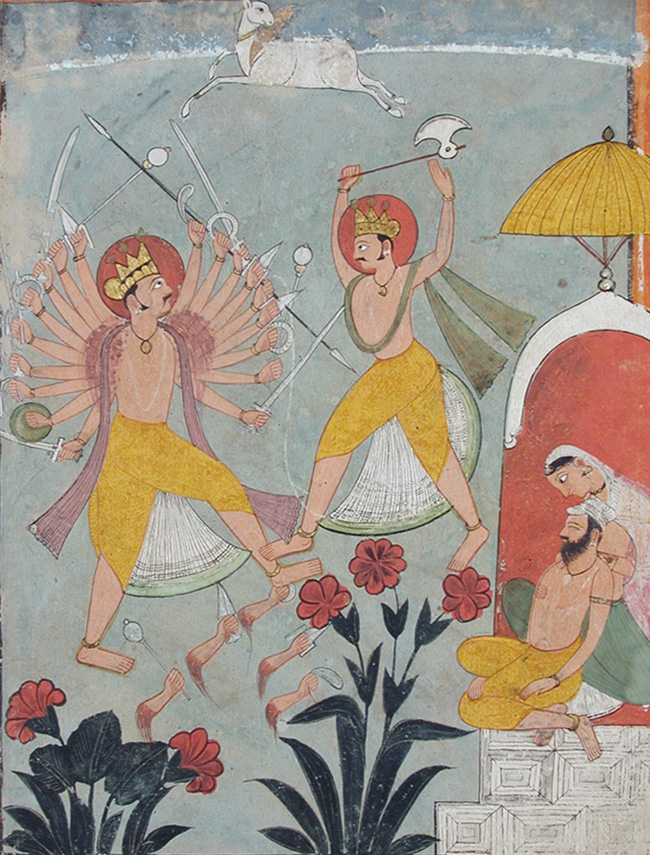 Creation Date: ca. 1725 Display Dimensions: 11 5/32 in. x 8 in. (28.3 cm x 20.3 cm) Credit Line: Edwin Binney 3rd Collection Accession Number: 1990.707 Collection: The San Diego Museum of Art